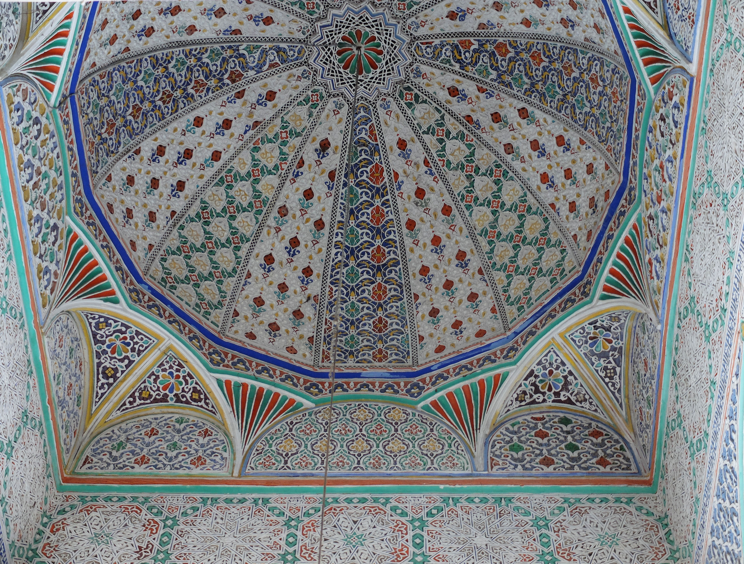 Dome above the vestibule of Bab al-Ward (Gate of the Roses), the main northern entrance to the Qarawiyyin Mosque. This entrance leads directly into the mosque's courtyard.